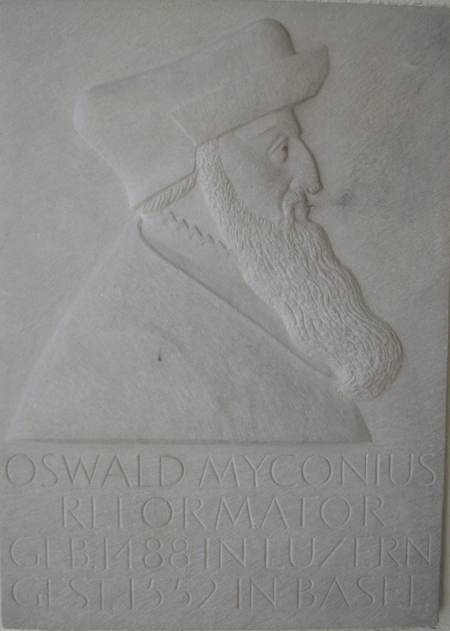 Oswald Myconius, Reformator (1488-1552), Matthäuskirche Luzern